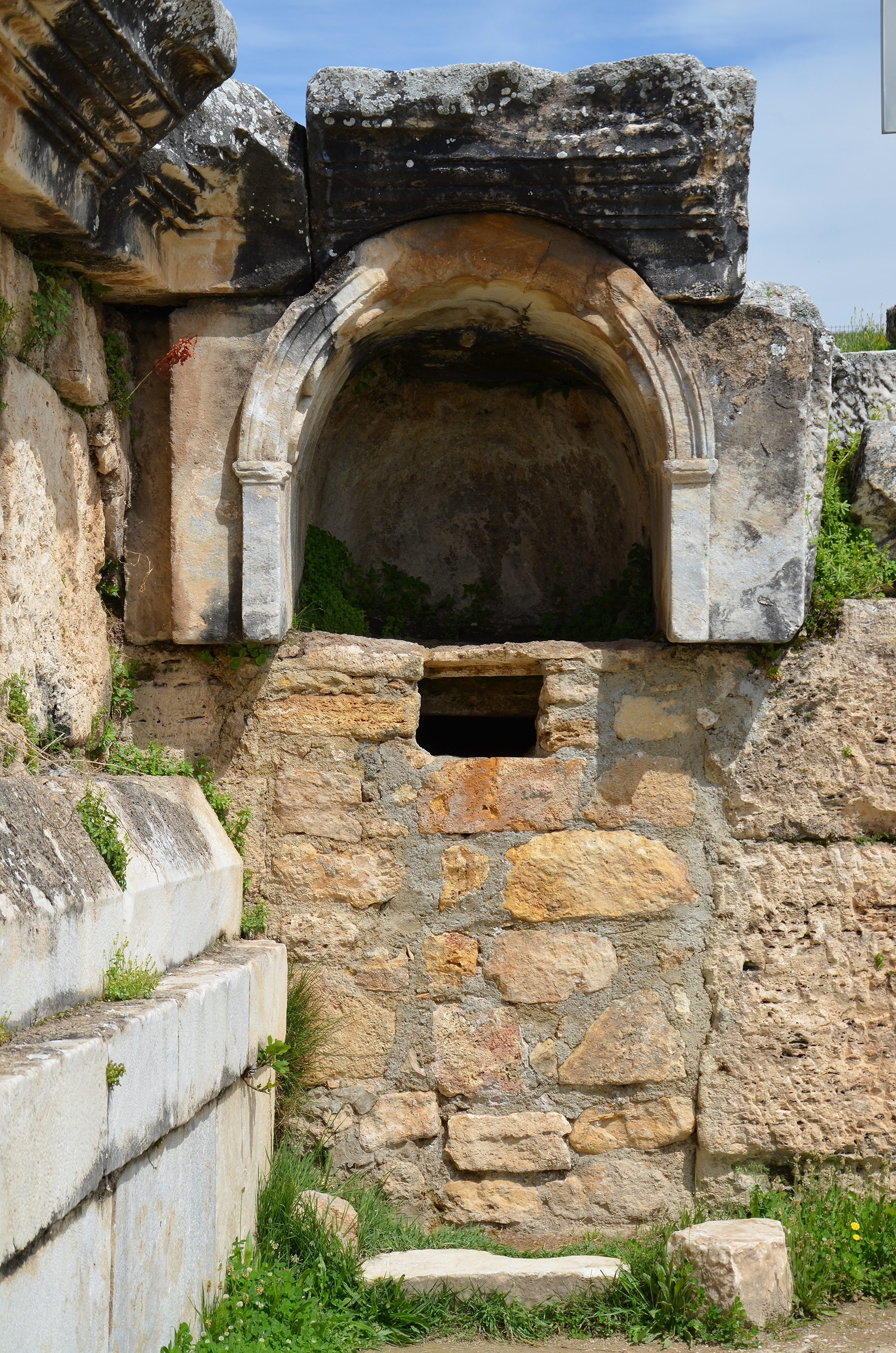 It was described by Strabo (629-30) as an orifice in a ridge of the hillside, in front of which was a fenced enclosure filled with thick mist immediately fatal to any who entered except the eunuchs of Kybele. The Plutoneion was mentioned and described later by numerous ancient writers, in particular Dio Cassius (68.27), who observed that an auditorium had been erected around it, and Damascius ap. Photius (Bibl. 344f), who recorded a visit by a certain doctor Asclepiodotus about A.D. 500; he mentioned the hot stream inside the cavern and located it under the Temple of Apollo. There is, in fact, immediately below the sidewall of the temple in a shelf of the hillside, a roofed chamber 3 m square, at the back of which is a deep cleft in the rock filled with a fast-flowing stream of hot water heavily charged with a sharp-smelling gas. In front is a paved court, from which the gas emerges in several places through cracks in the floor. The mist mentioned by Strabo is not observable now. The gas was kept out of the temple itself by allowing it to escape through gaps left between the blocks of the sidewalls.